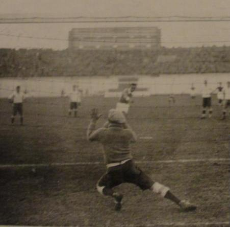 Octavio Díaz detiene un penal ante Egipto, por la semifinal de los JJOO de Amsterdam 1928